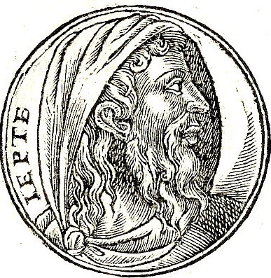 Jephthah is a character in the Hebrew Bible's Book of Judges, serving as a judge over Israel for a period of six years (Judges 12:7).